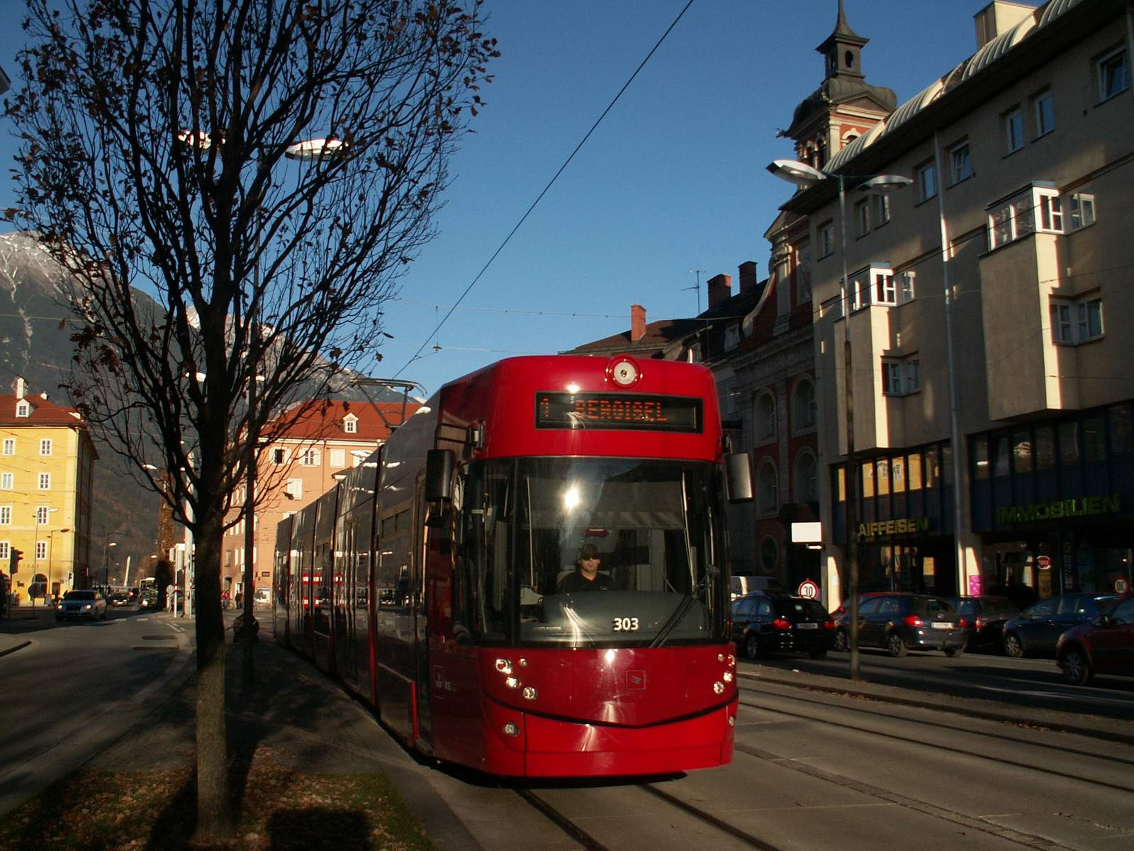 Bombardier Flexity Outlook C type Innsbruck streetcar #303 of Innsbrucker Verkehrsbetriebe at line 1 Mühlauer Brücke - Bergisel.